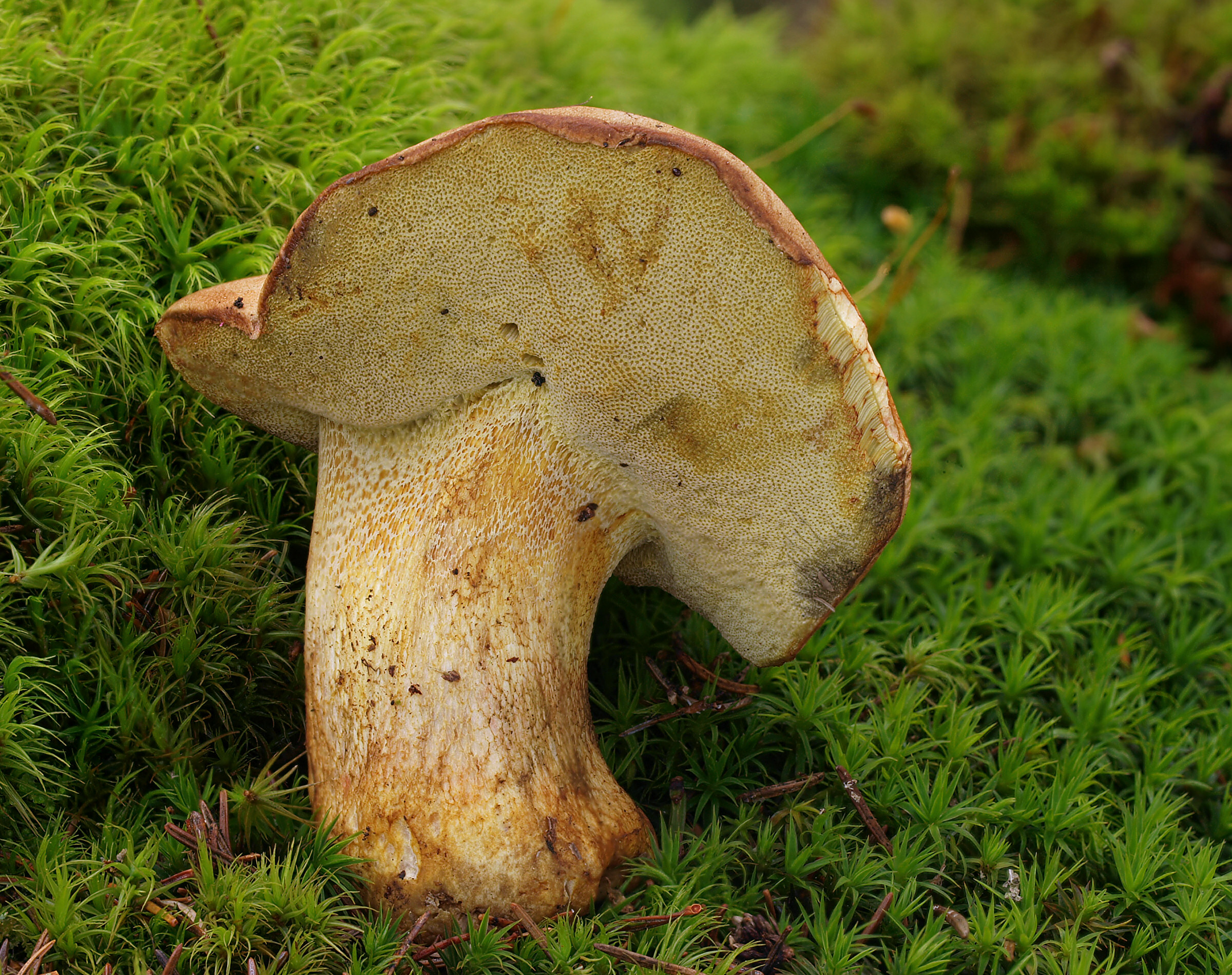 Boletus subappendiculatus growing under Picea abies. Nationalpark Bayerischer Wald.